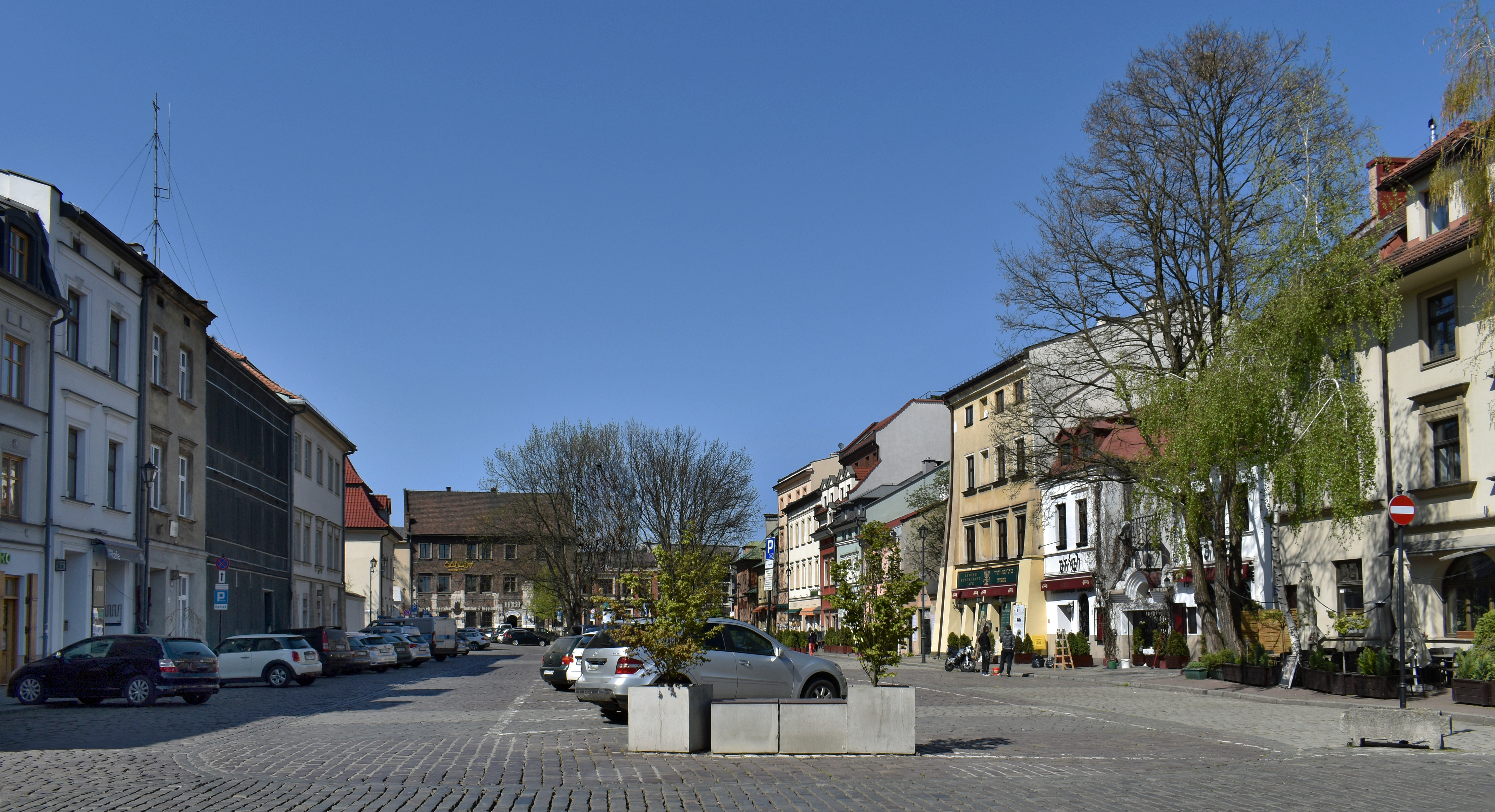 Szeroka street, view from S, Kazimierz, Kraków, Poland